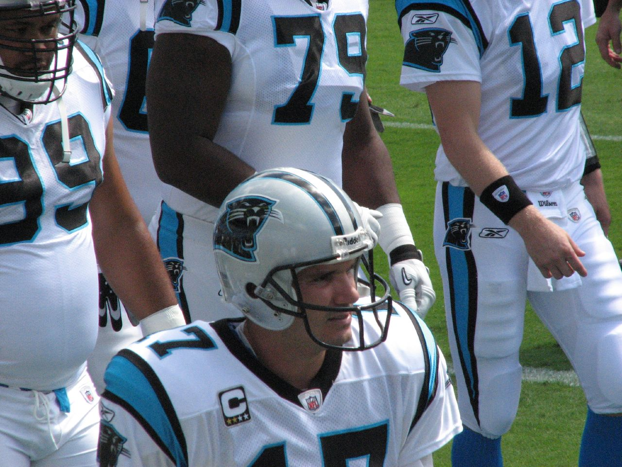 Jake Delhomme, quarterback of the Carolina Panthers at Bank of America Stadium.